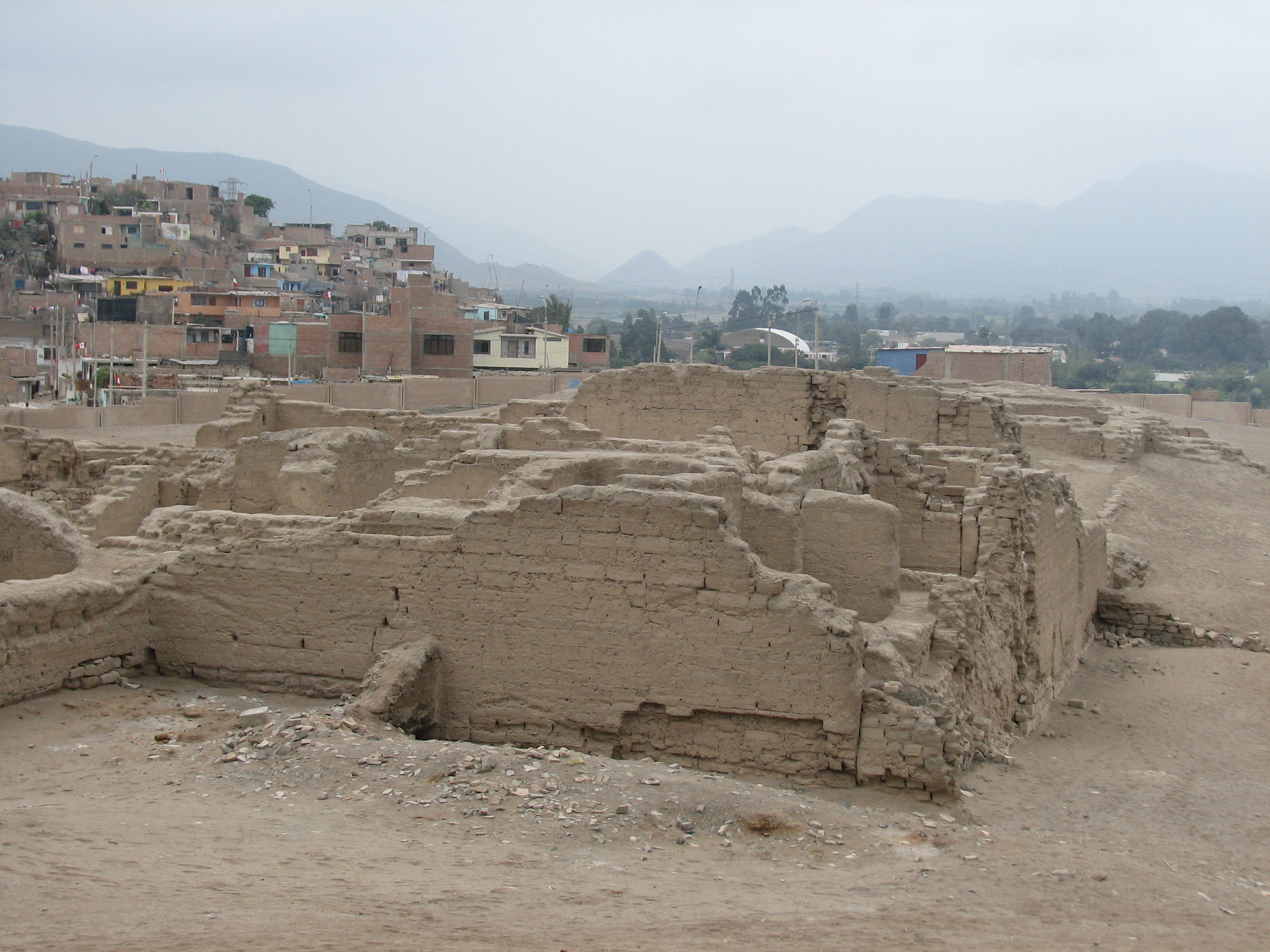 Pachacamac archaeological site in Peru